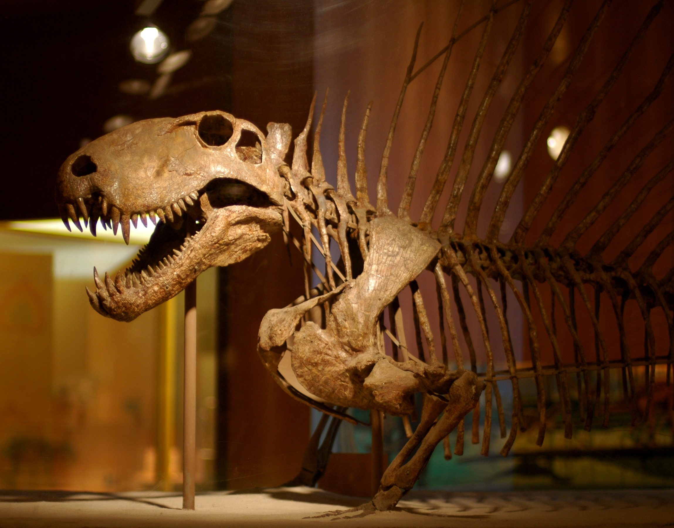 A dimetrodon skeleton. National Museum of Natural History, Washington, D.C.